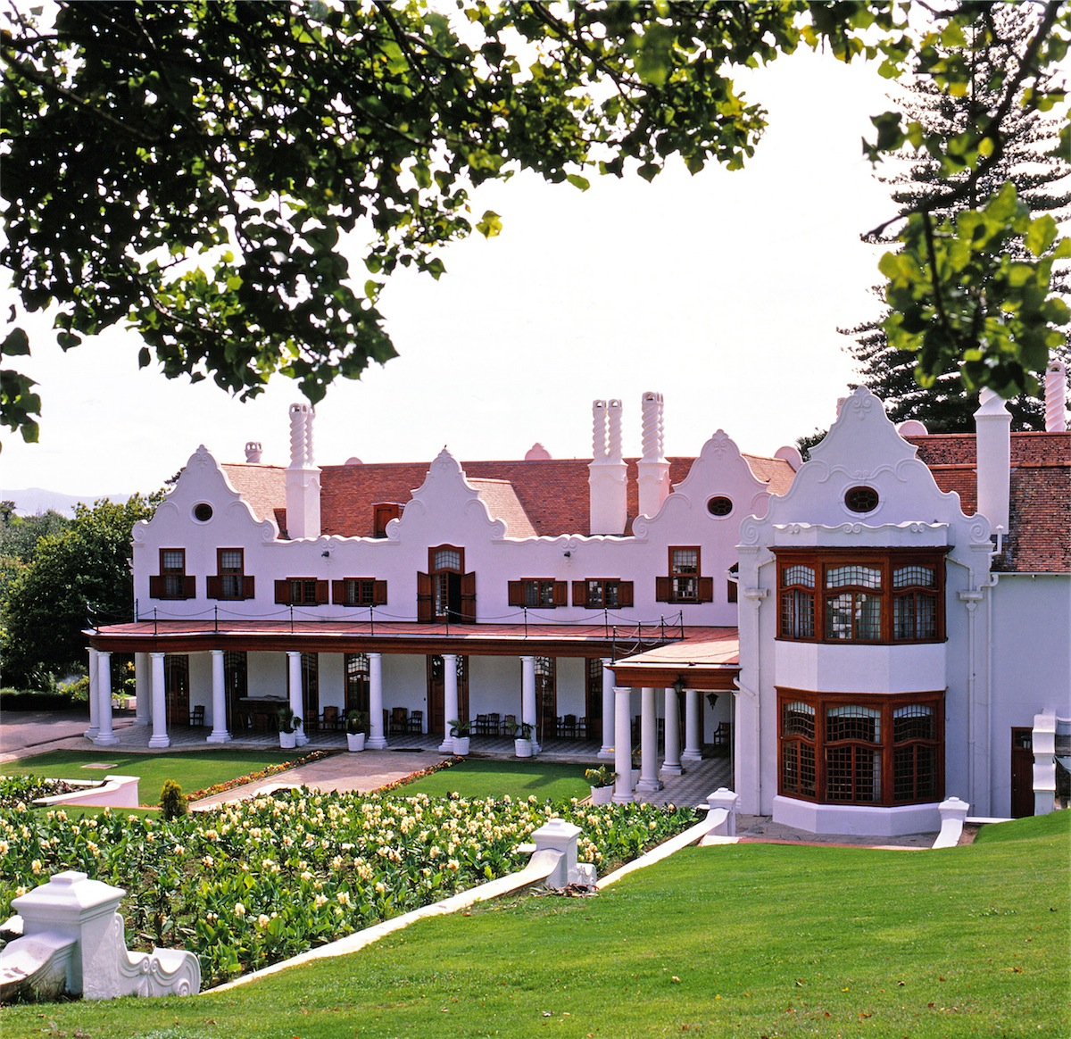 This media shows a South African Protected Site with SAHRA file reference 9/2/111/0072/001.